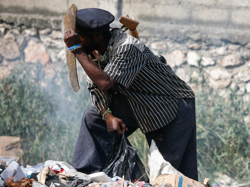 Looking Through Garbage